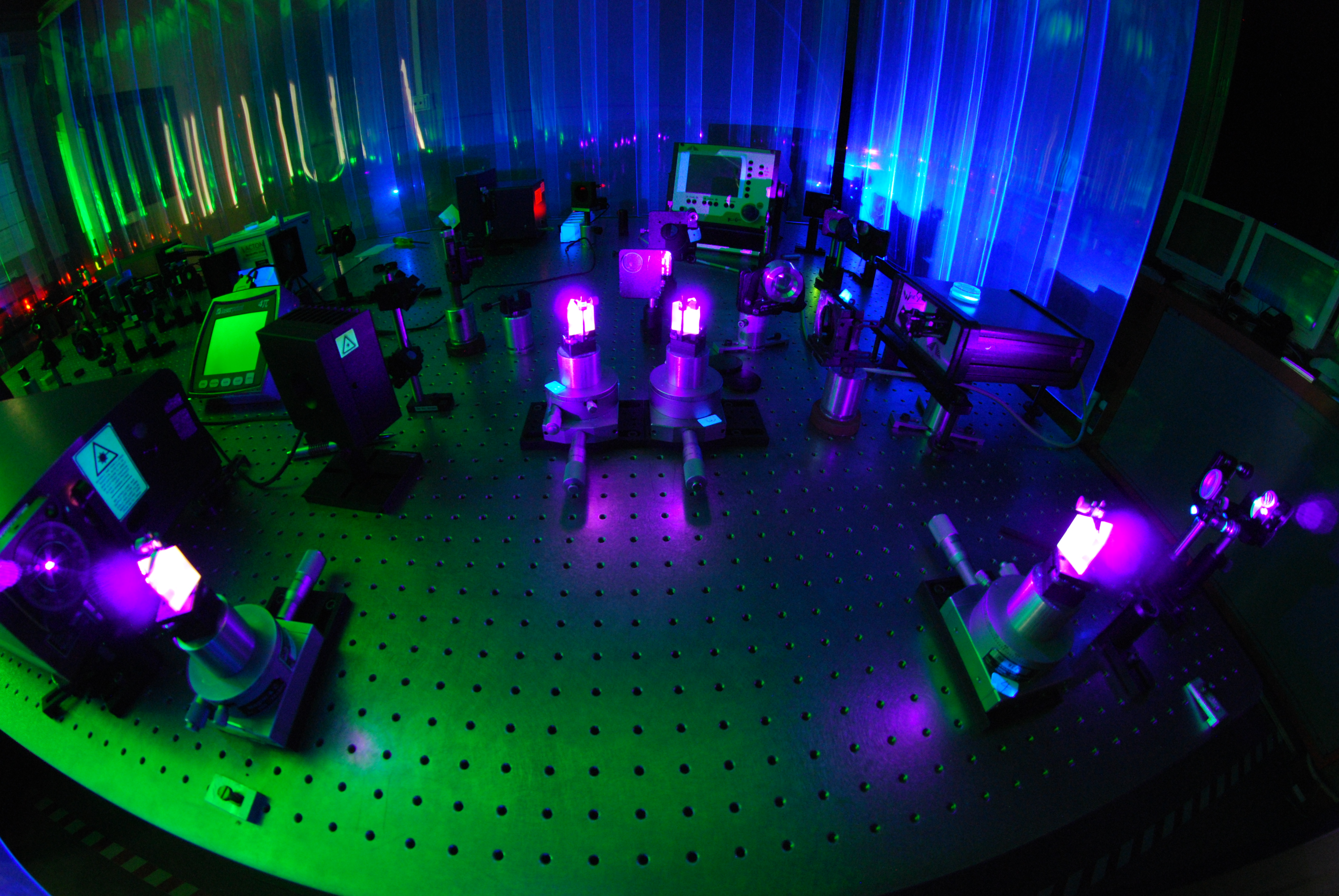 Femtosecond laser & pulse compressor - Optics Lab at INRIM